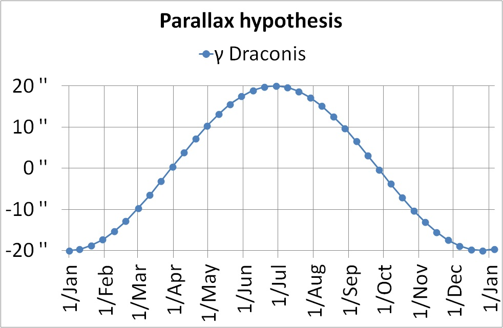 Hypothetical observation of γ Draconis by James Bradley if its movement was caused by parallax. Had its movement been caused by parallax, the star would have moved southward from June to December.